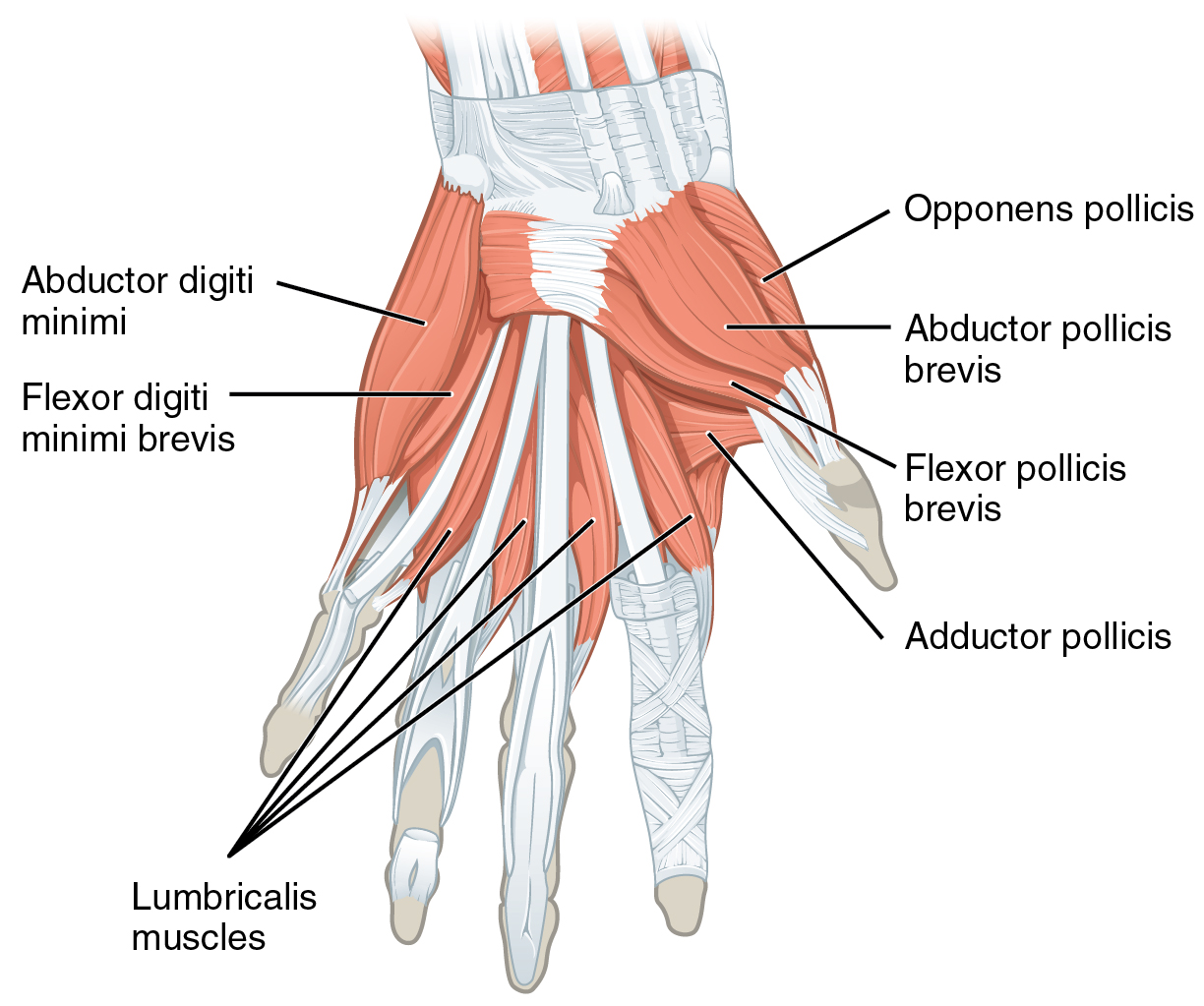 Based off: Based off